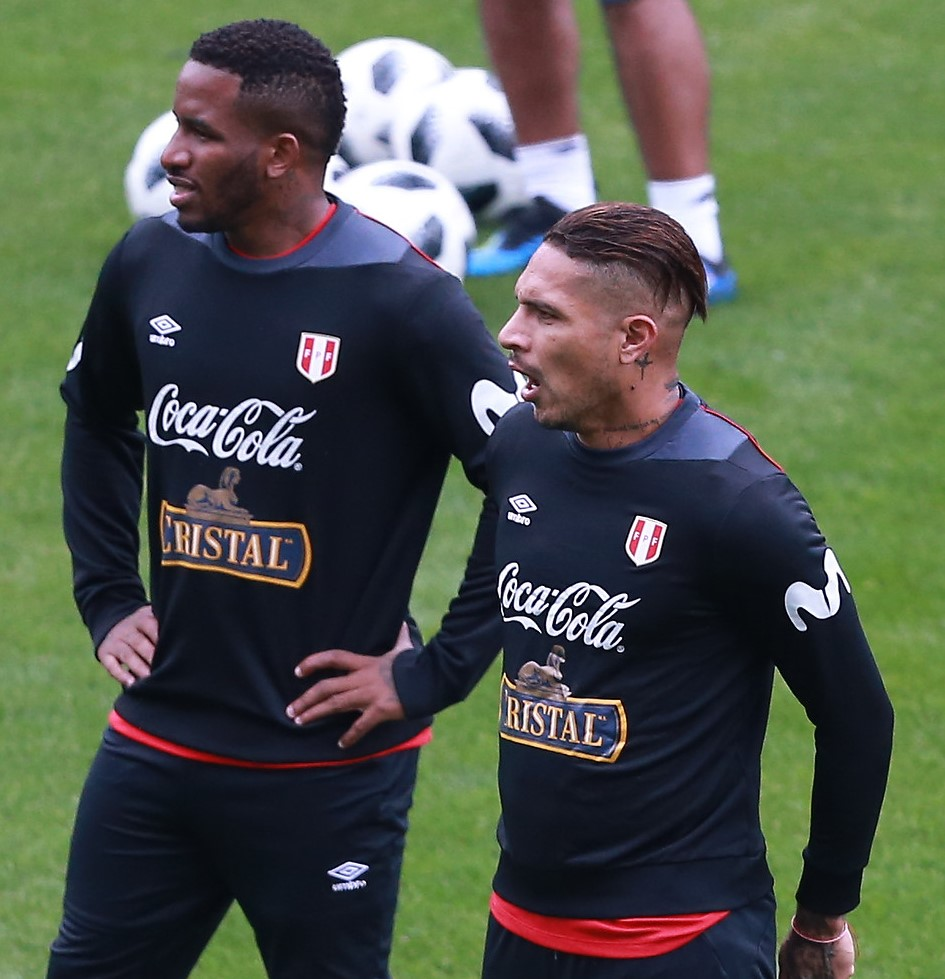 Jefferson Farfán, Paolo Guerrero